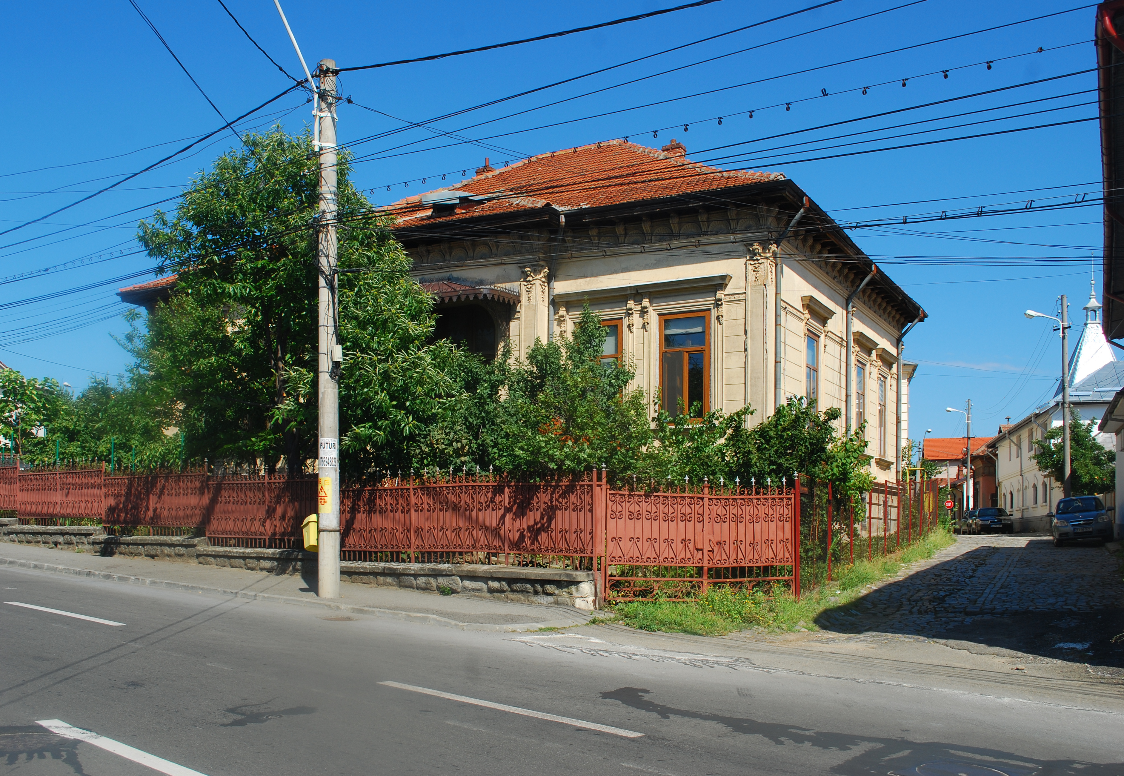 Vulcănescu house, 37 Alexandru Macedonski street, Craiova, Romania